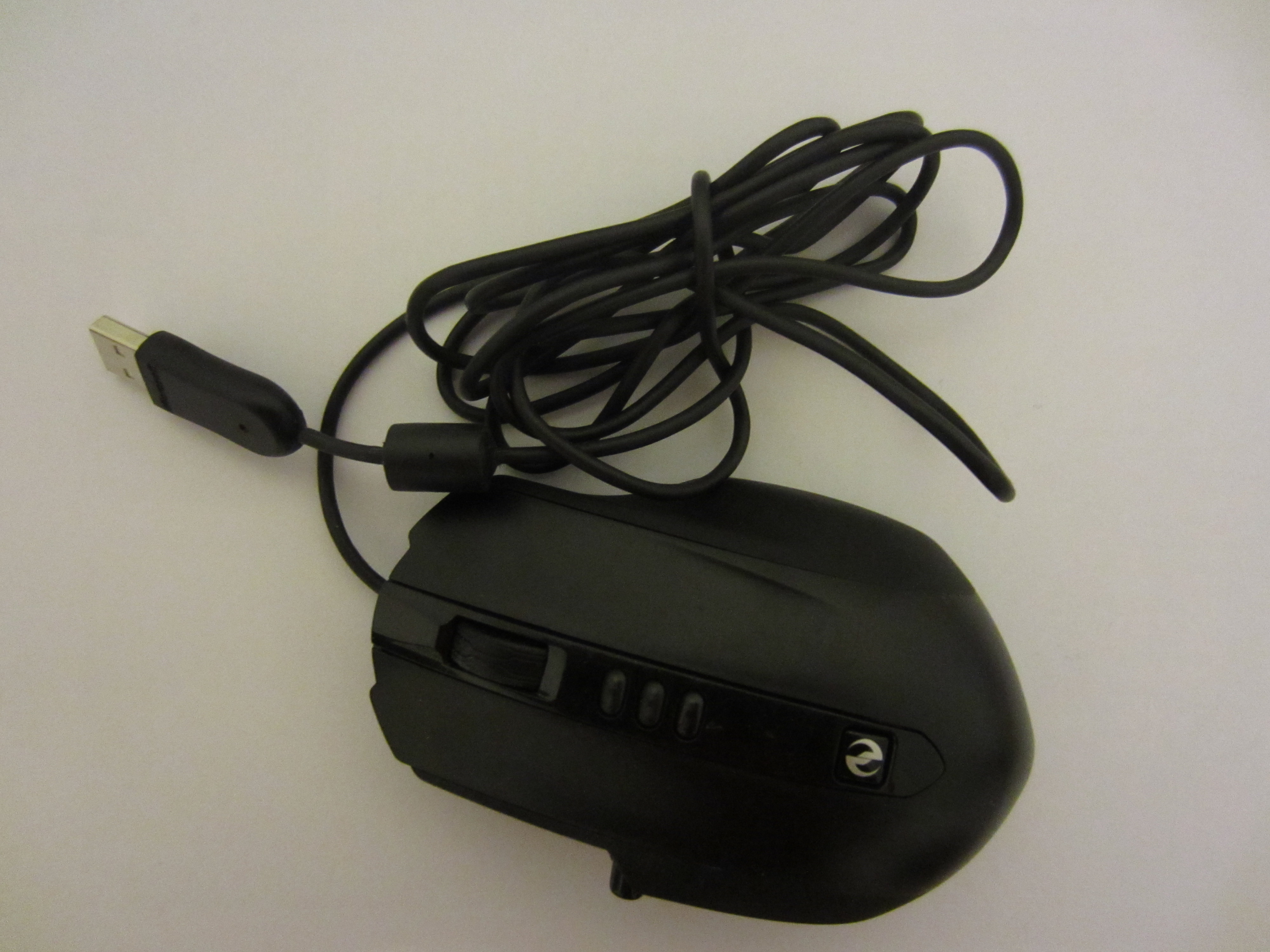 Microsoft Sidewinder X5 gaming mouse.